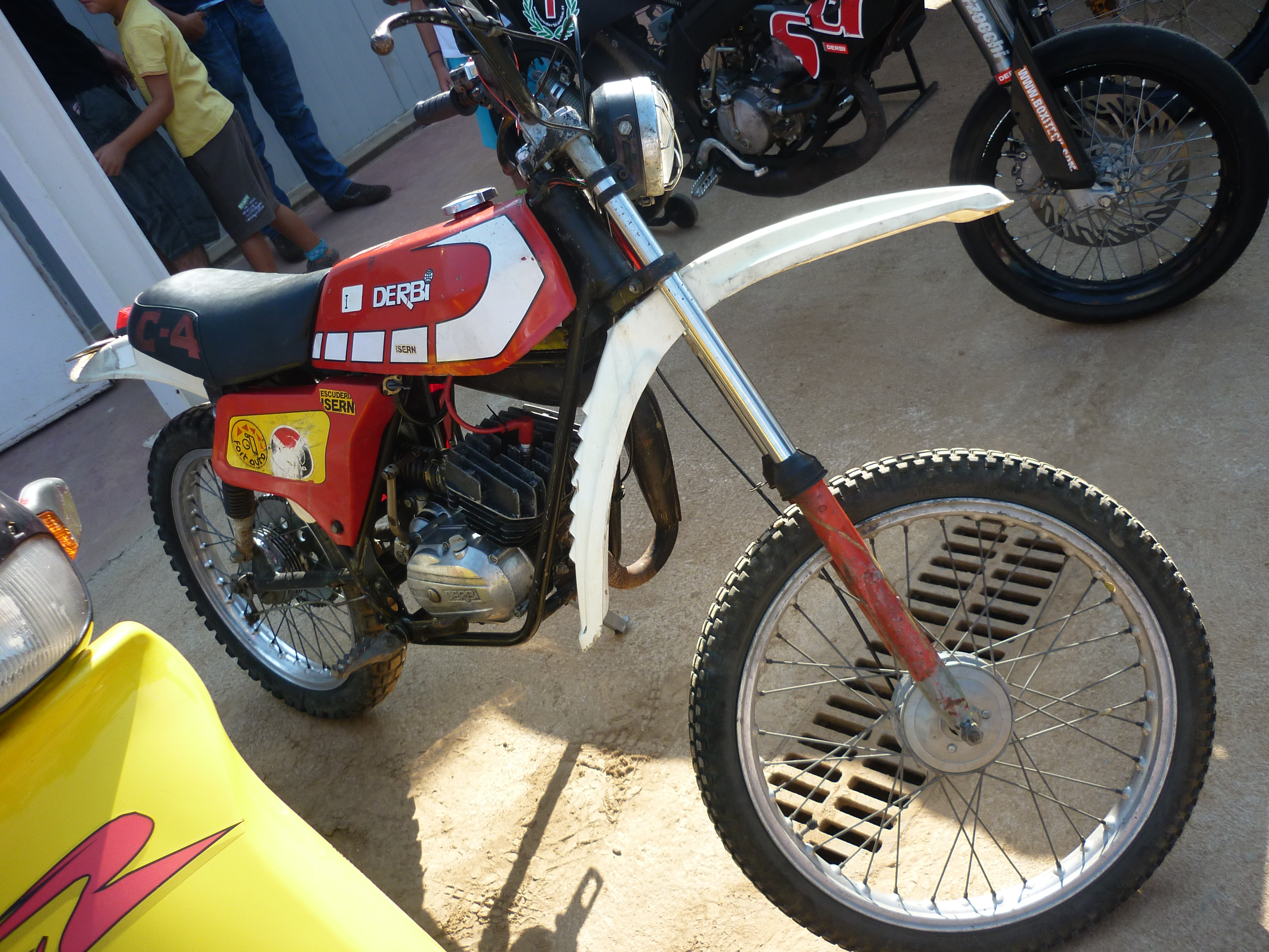 Derbi Diablo C-4 50cc (1978).Motorcycle meeting held on September 10, 2011 in Can Carrancà (near the Derbi factory in Martorelles, Catalonia).